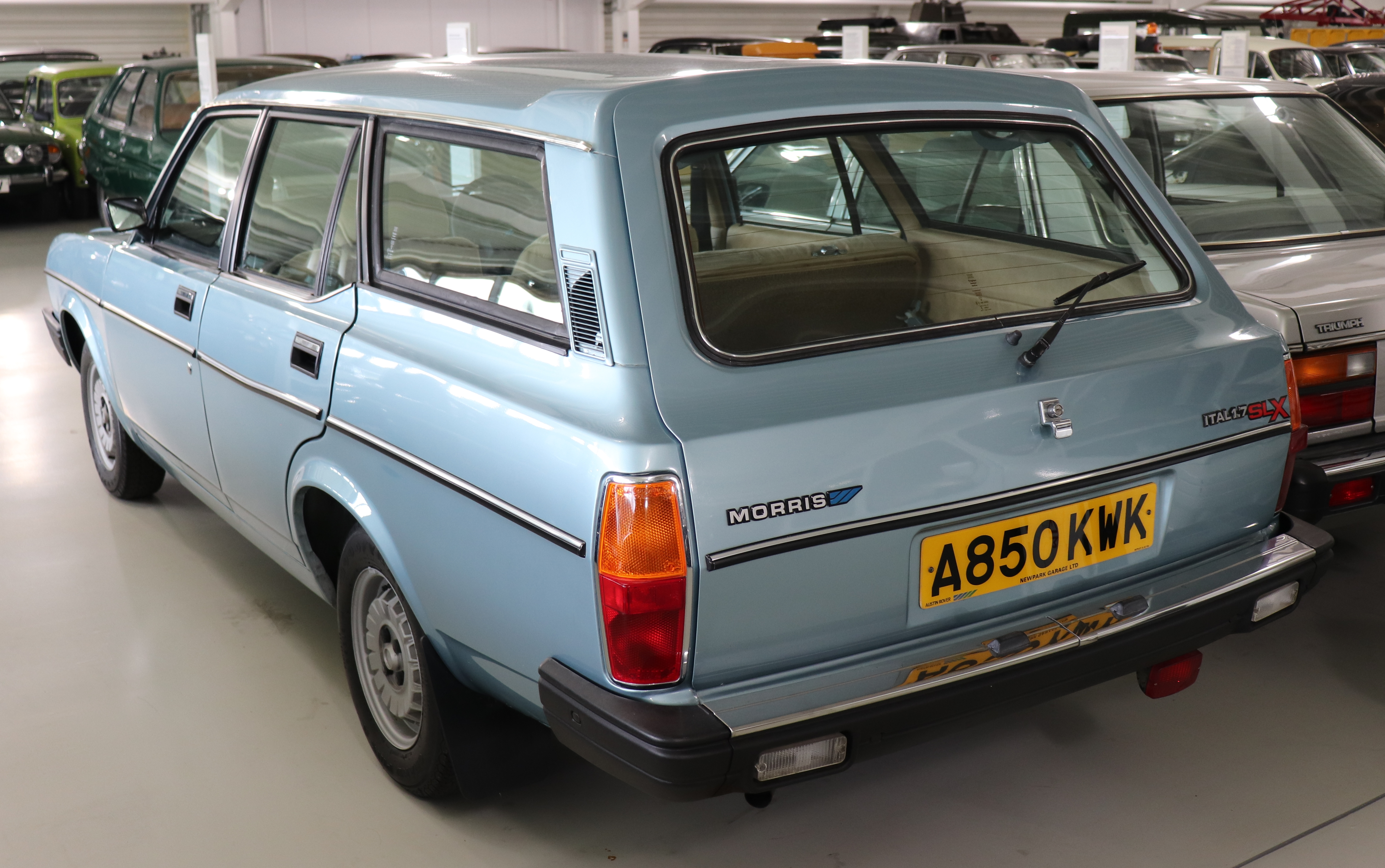 1984 Morris Ital SLX 1.7 Rear Taken at the British Motor Museum, Gaydon